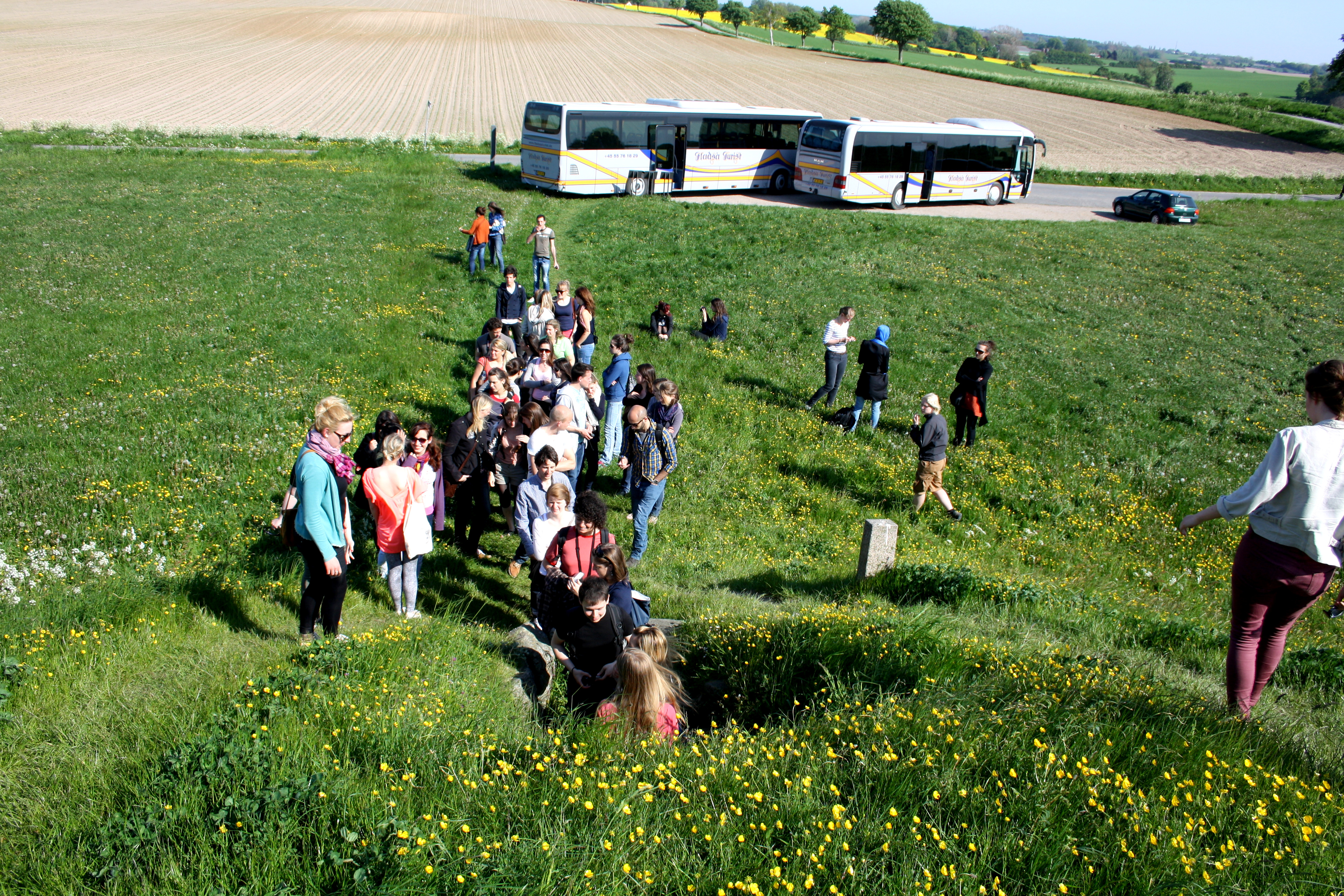 Kong Asgers Høj is one of the biggest passage graves in Denmark with an entry tunnel of 5 meters and a chamber of 10 meteres